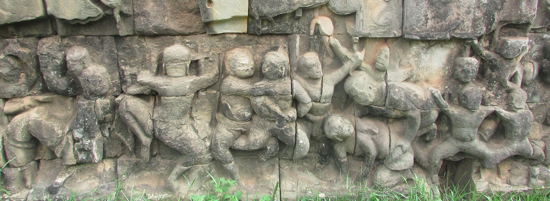 ancient bas-relief showing a pradal serey (freestyle fighting) match.